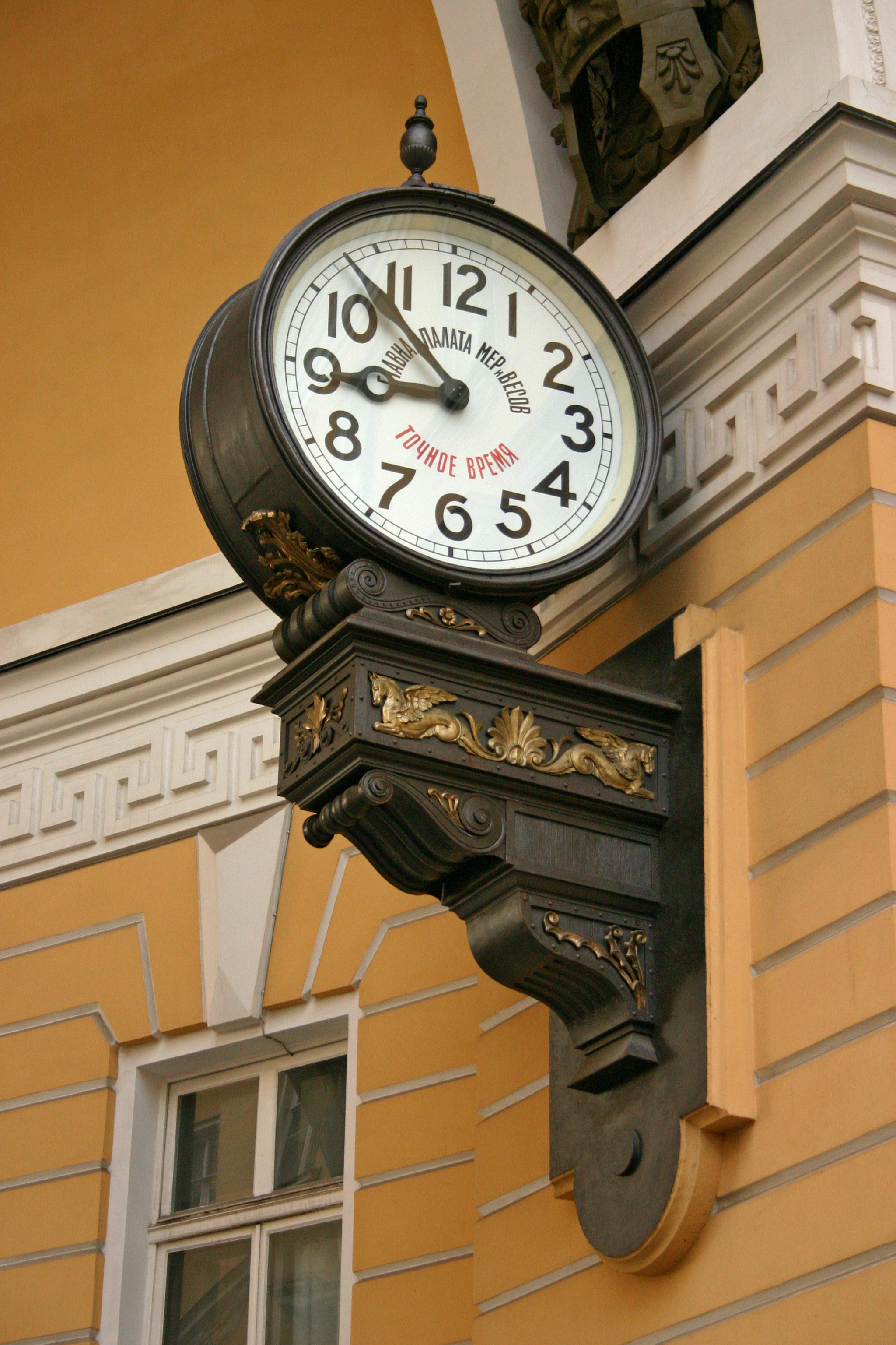 Clocks on the Main headquarters building in Saint Petersburg